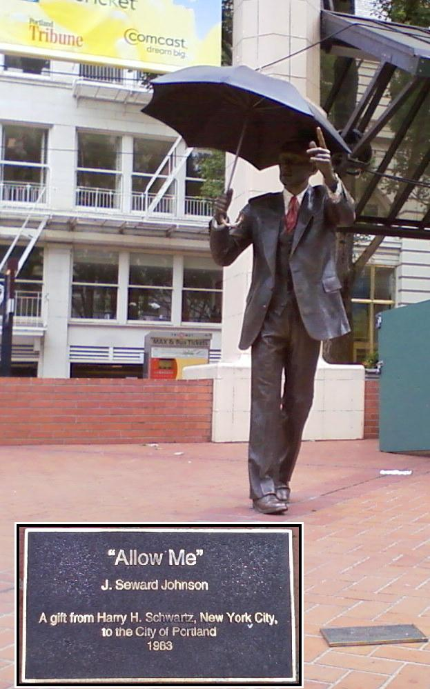 'Allow Me' Sculpture in Pioneer Courthouse Square, Portland, Oregon, United States.